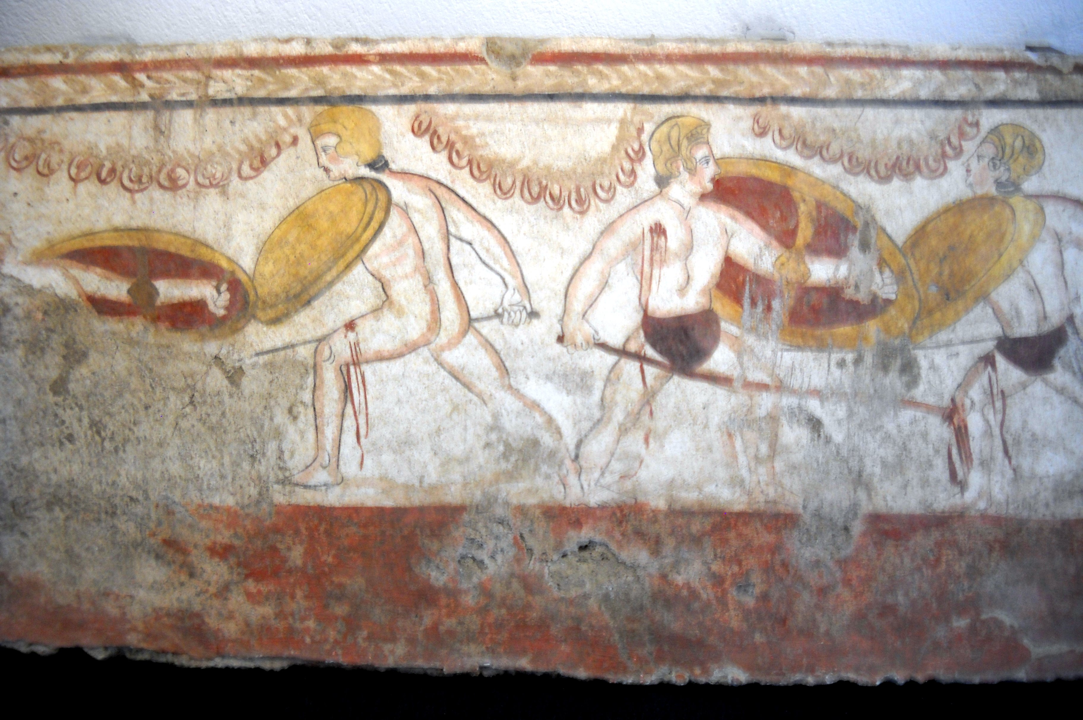 Tomb walls, Paestum